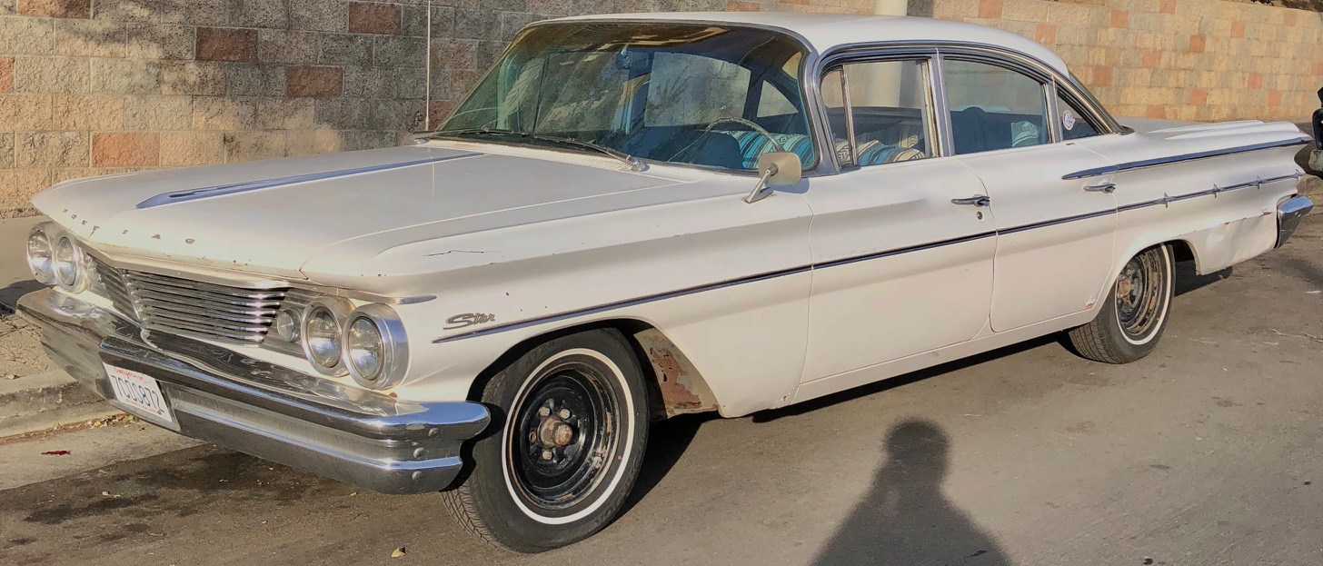 Pontiac Star Chief 4-door sedan